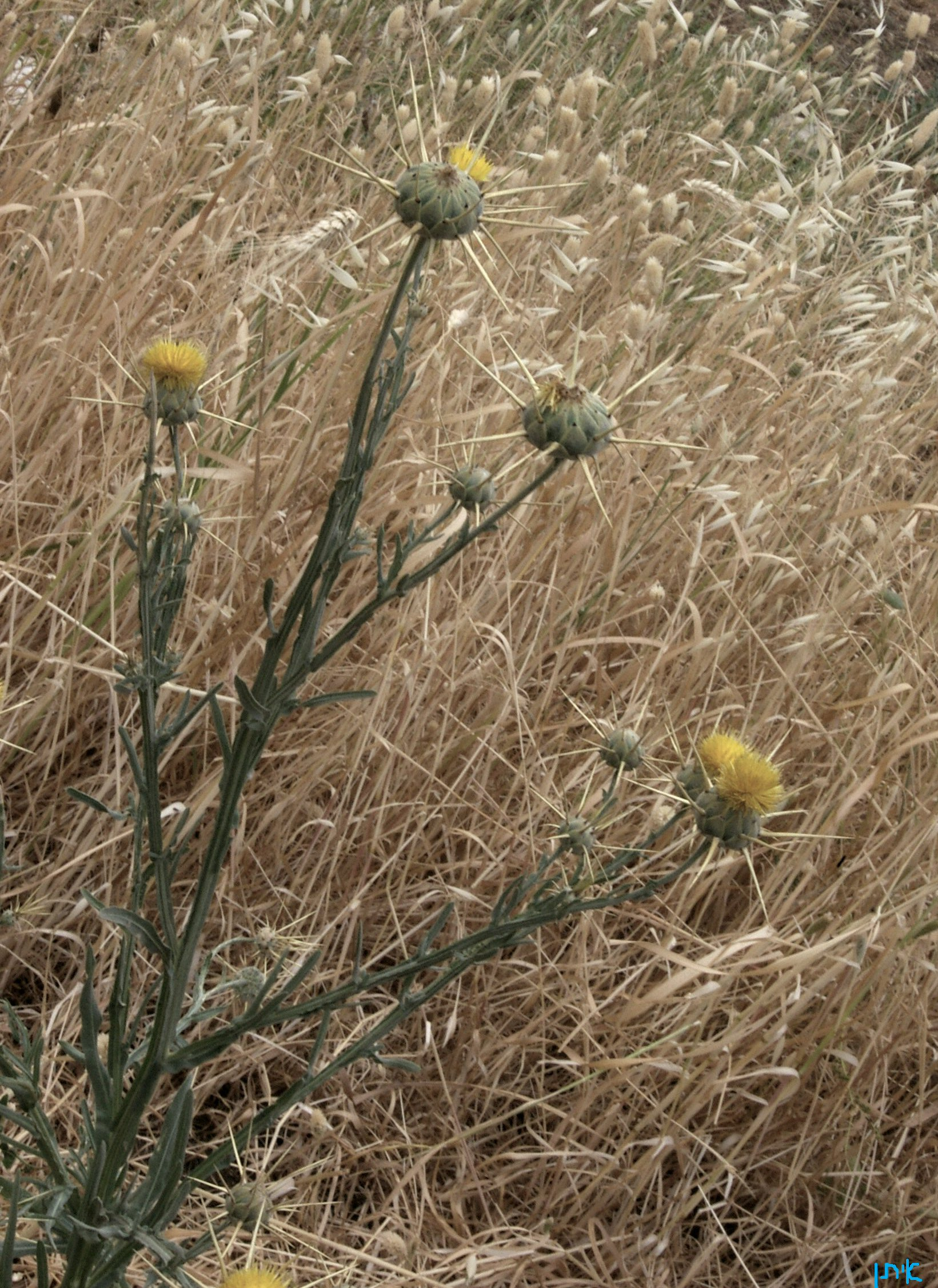 Centaurea verutum דרדר קִפח